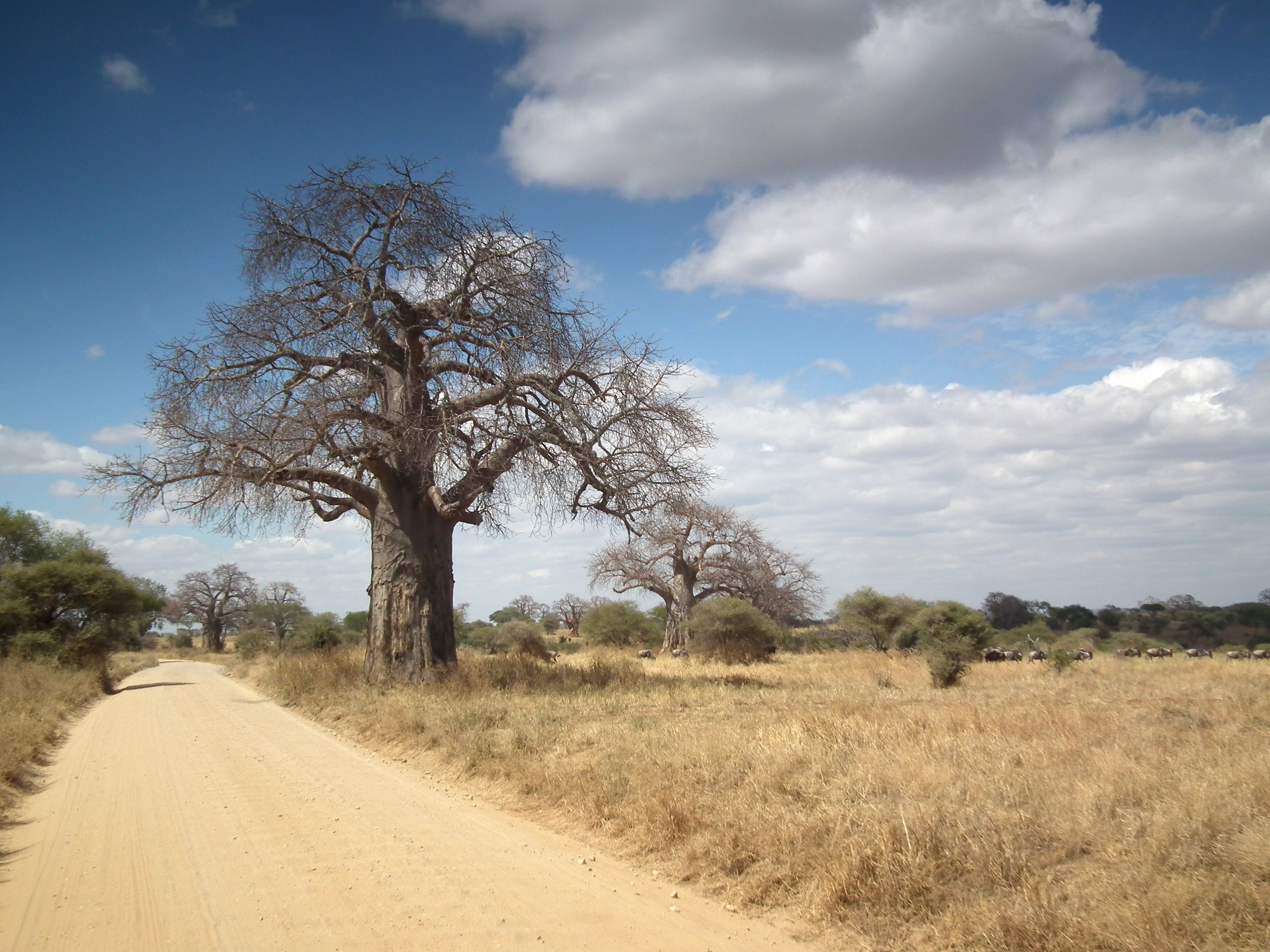 Baobab tree (Adansonia digitata), picture taken at, Northern Tanzania